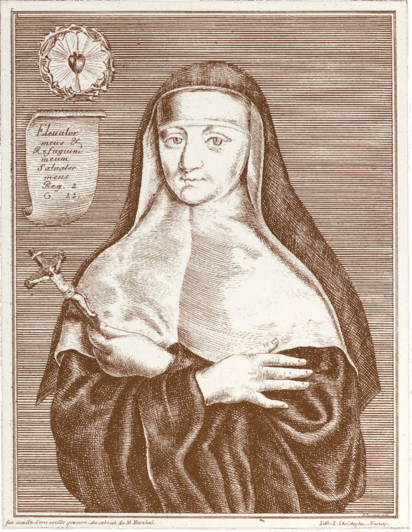 Engraving of Marie Elisabeth de la Croix de Jesus aka Elisabeth de Ranfaing. First published in 1654, in Nimes (5 years after Ranfaing's death) and by an unknown artist. This reproduction taken from the front cover of 'Le Pays Lorrain: Revue Regionale Trimestrielle Illustree, Vol. 74 No. 1, Jan-Mar 1993'. The original engraving found in the collection of the Lorraine Historical Museum